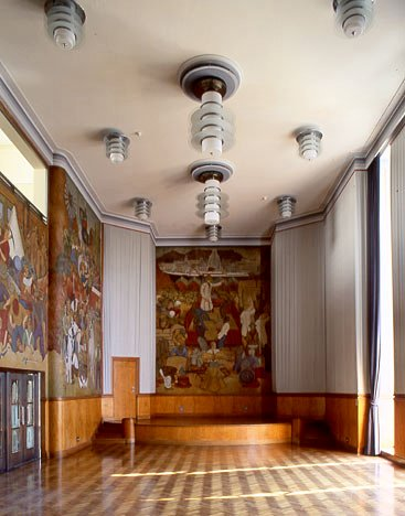 The fresco room on the eighth level (sometimes known as the "Assembly Hall") contains striking frescoes by Le Roux Smith Le Roux.